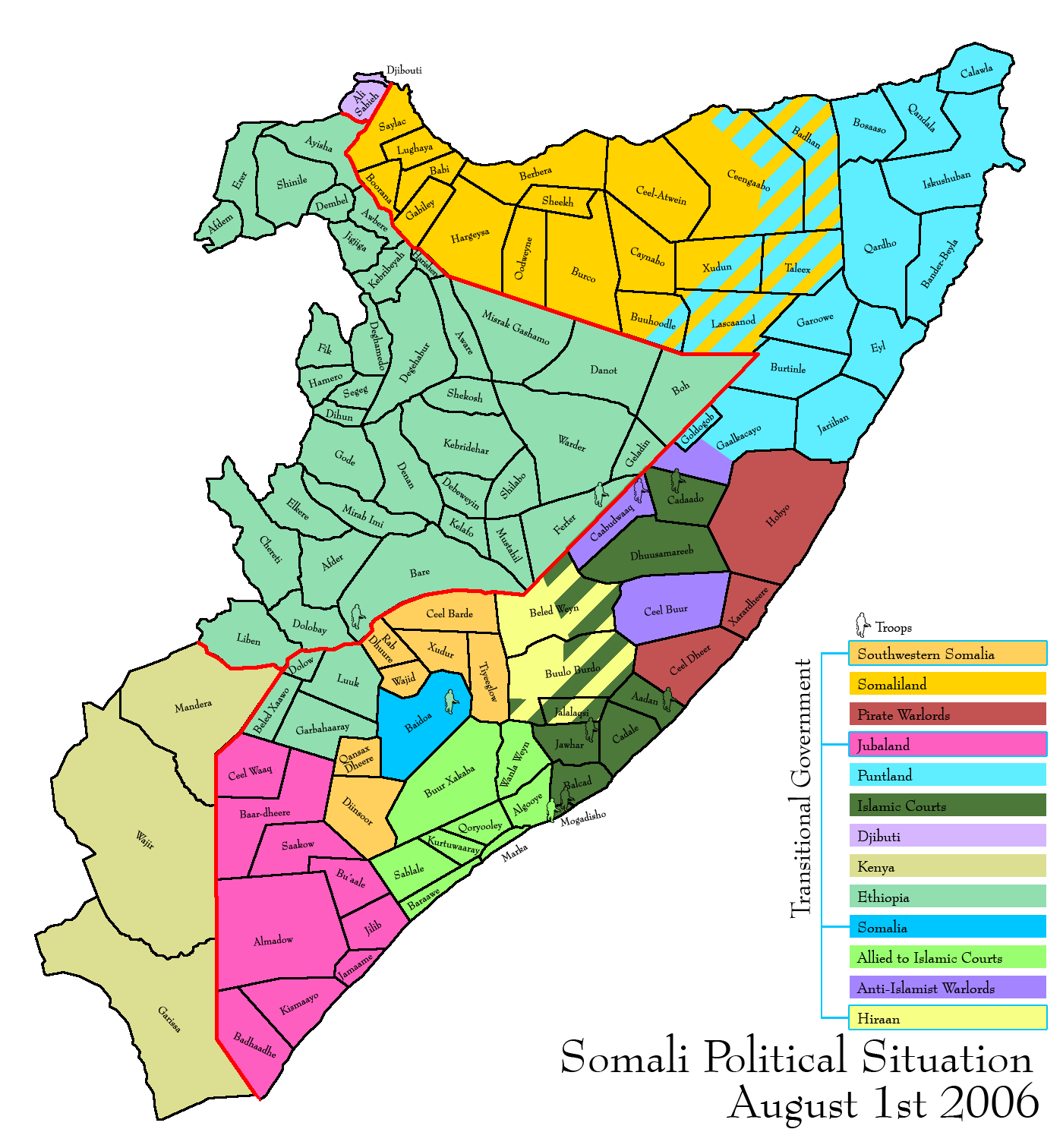 Somali political situation as of August 1, 2006.